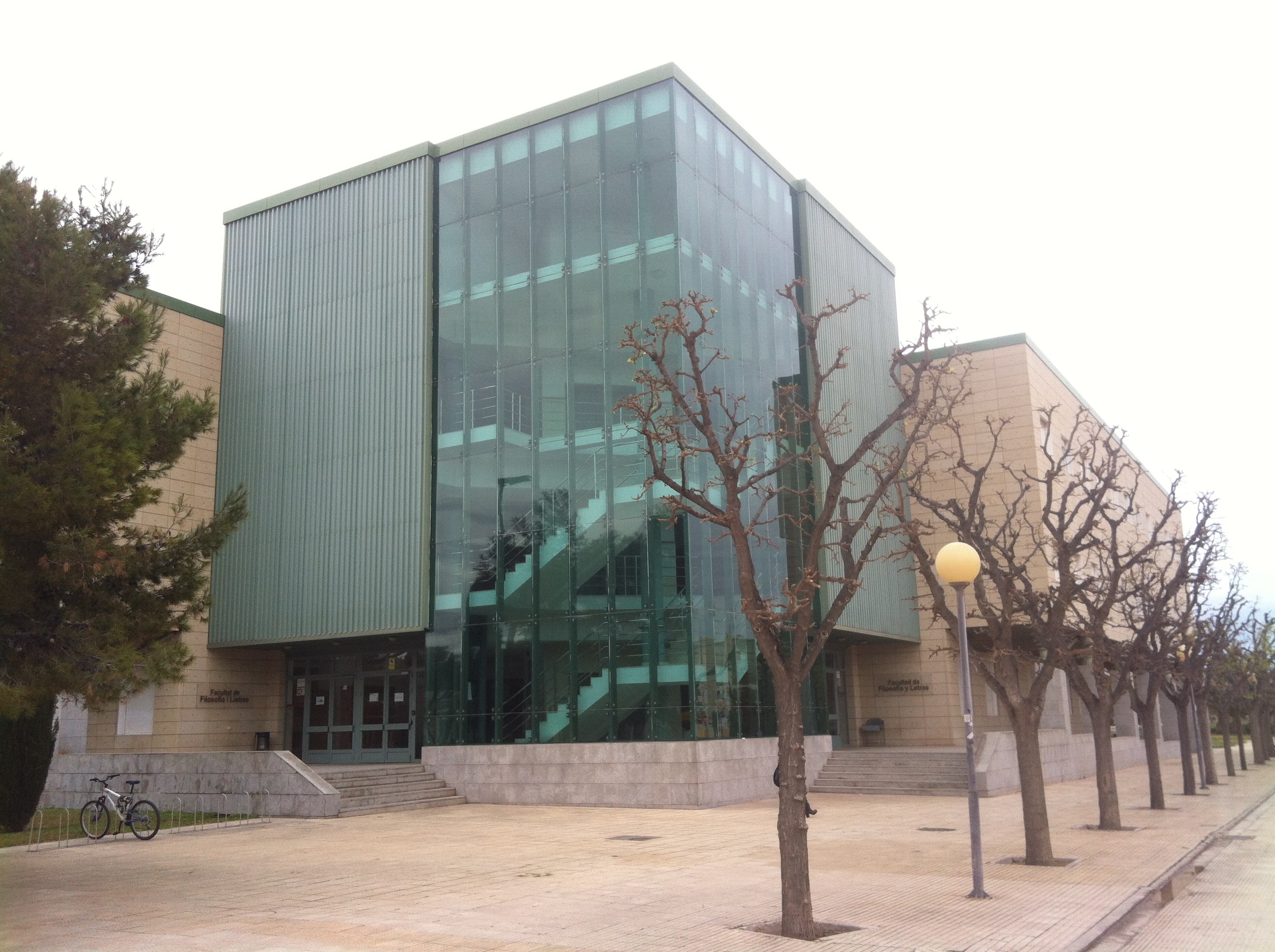 Universitat d'Alacant facultat de lletres